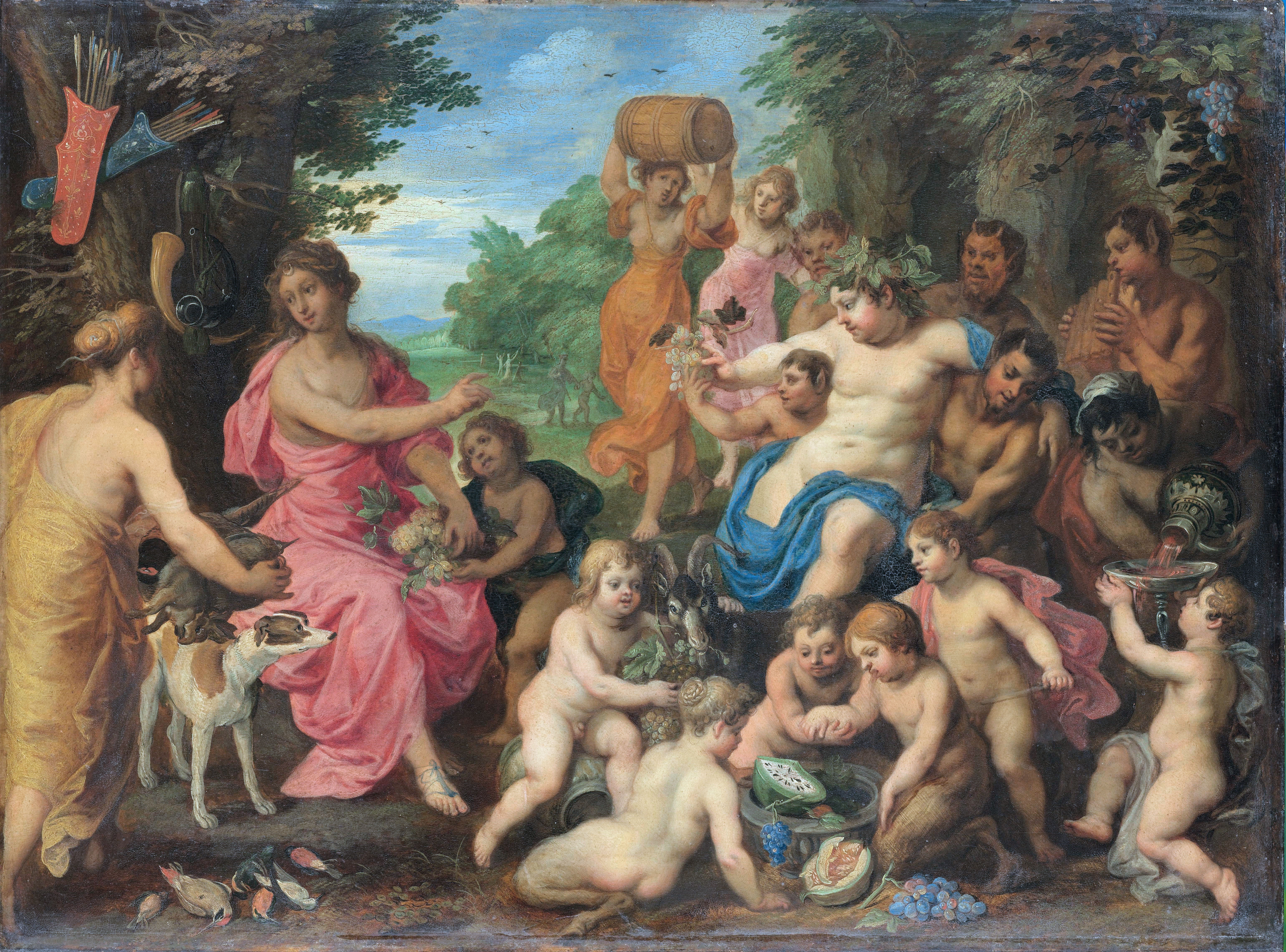 Bacchanal with Bacchus and Diana. Bacchus is surrounded by satyrs and children, who drink, vomit and play music. At his feet a goat is eating grapes. Diana is accompanied by nimphs and a hound. Behind her hunting gear including two quivers and a horn is hanging on a tree.